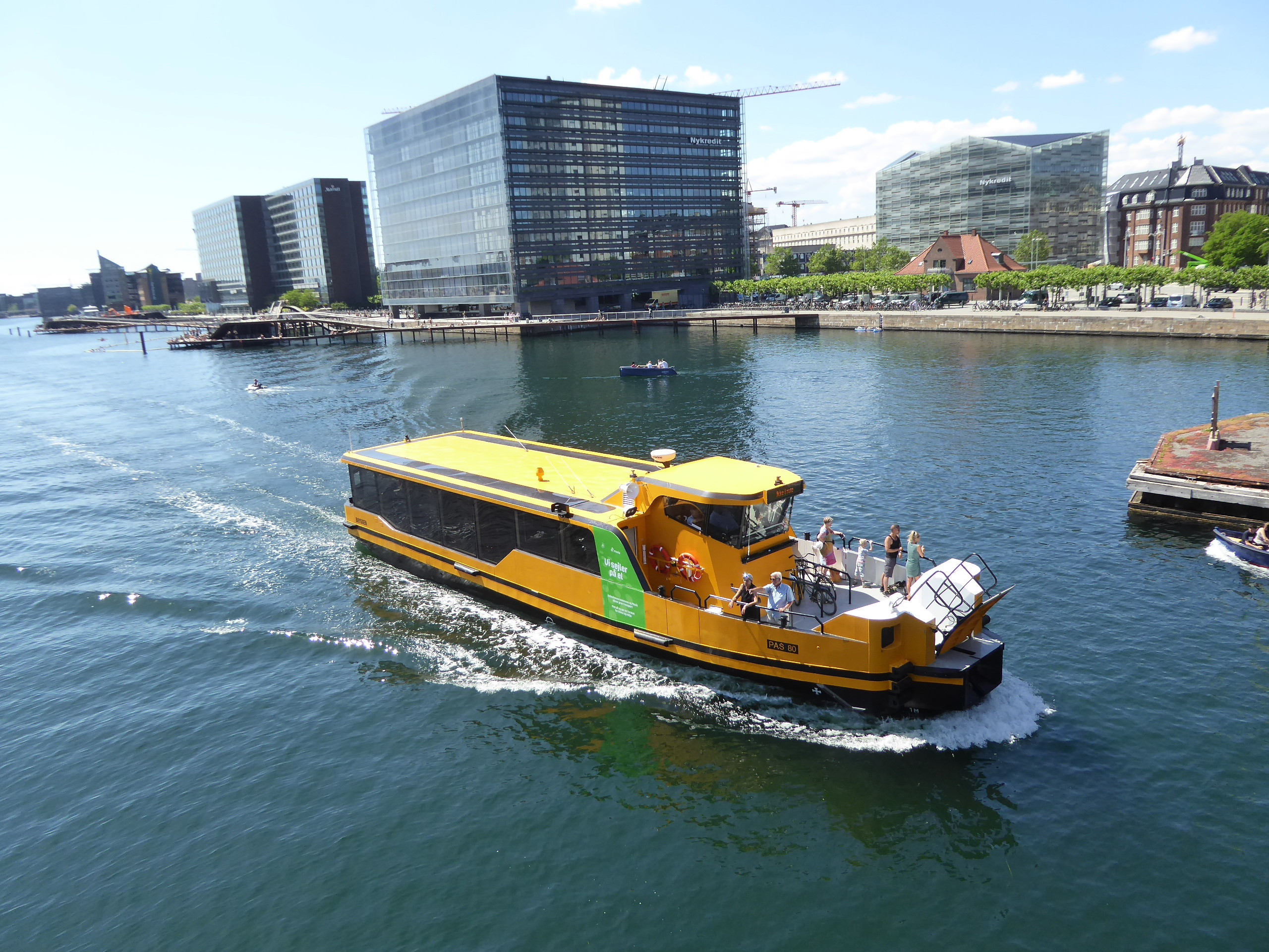 The new electric harbour bus Bryggen at Langebro in Copenhagen. It had entered service together with four identical ships a few days before.